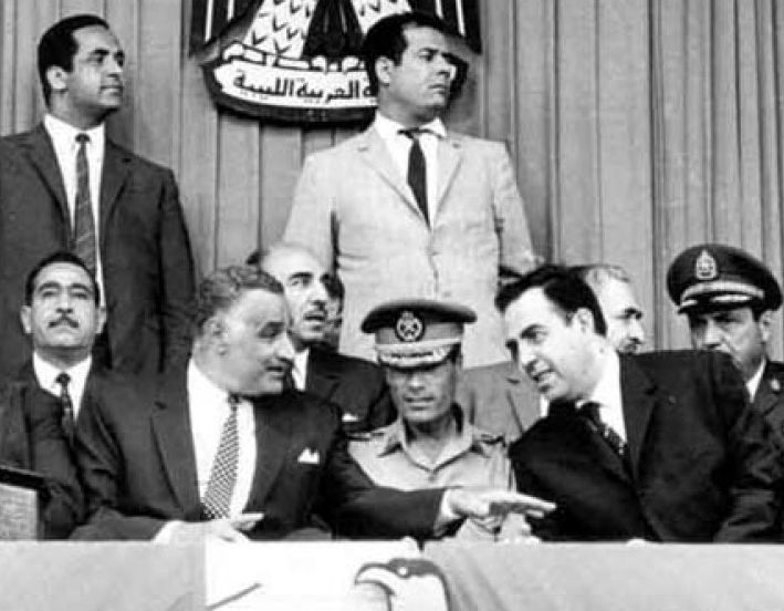 At an Arab summit in Libya in 1969, shortly after the September Revolution that toppled King Idris I and brought Colonel Mu’ammar al-Qaddafi to power. The new Libyan leader Mu’ammar al-Qaddafi sits in military uniform in the middle, surrounded by President Gamal Abd al-Nasser (left) and Syrian President Nur al-Din al-Atasi (right).